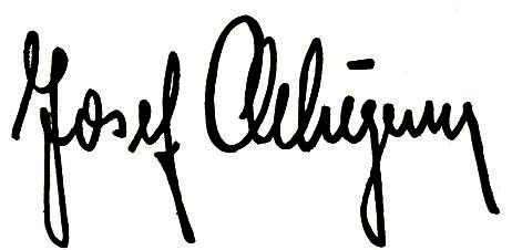 Signature of Josef Schürgers